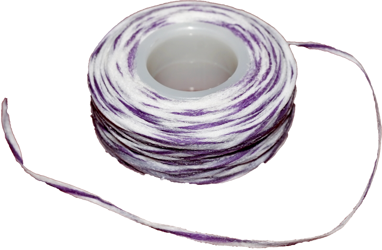 Dental floss roll Jordan Multi Action Floss.